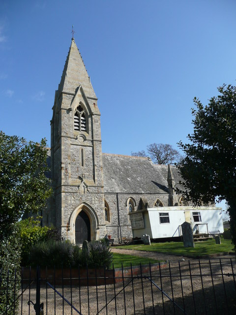 St Mary's parish church, Atherstone on Stour, Warwickshire, designed by J Cotton and built in 1876 with 14th-century masonry salvaged from the previous medieval church on the site. The church is now redundant and is being converted into a house.